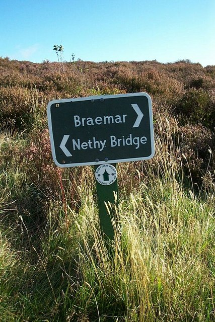 Ryvoan Pass. No chance of getting lost here, then.